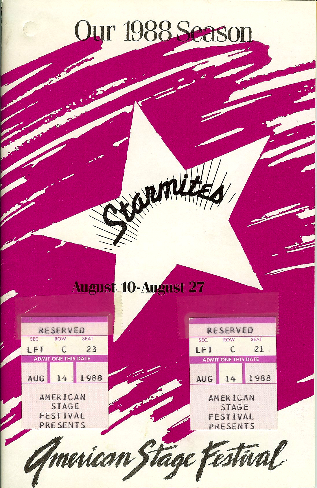 Program cover from the 1988 ASF production of "Starmites." The American Stage Festival no longer exists.